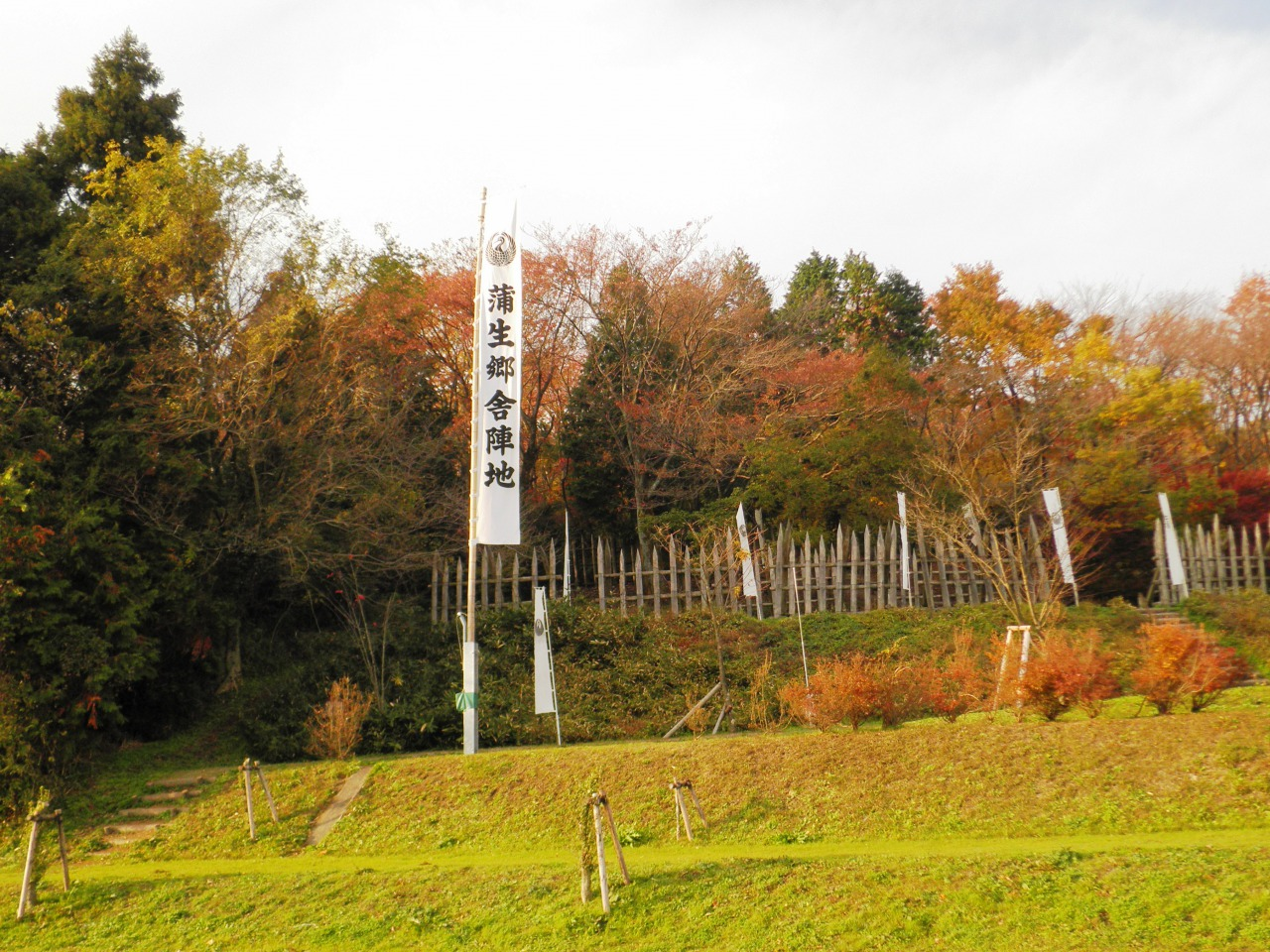 Site of Gamō Satoie's position in the Battle of Sekigahara.